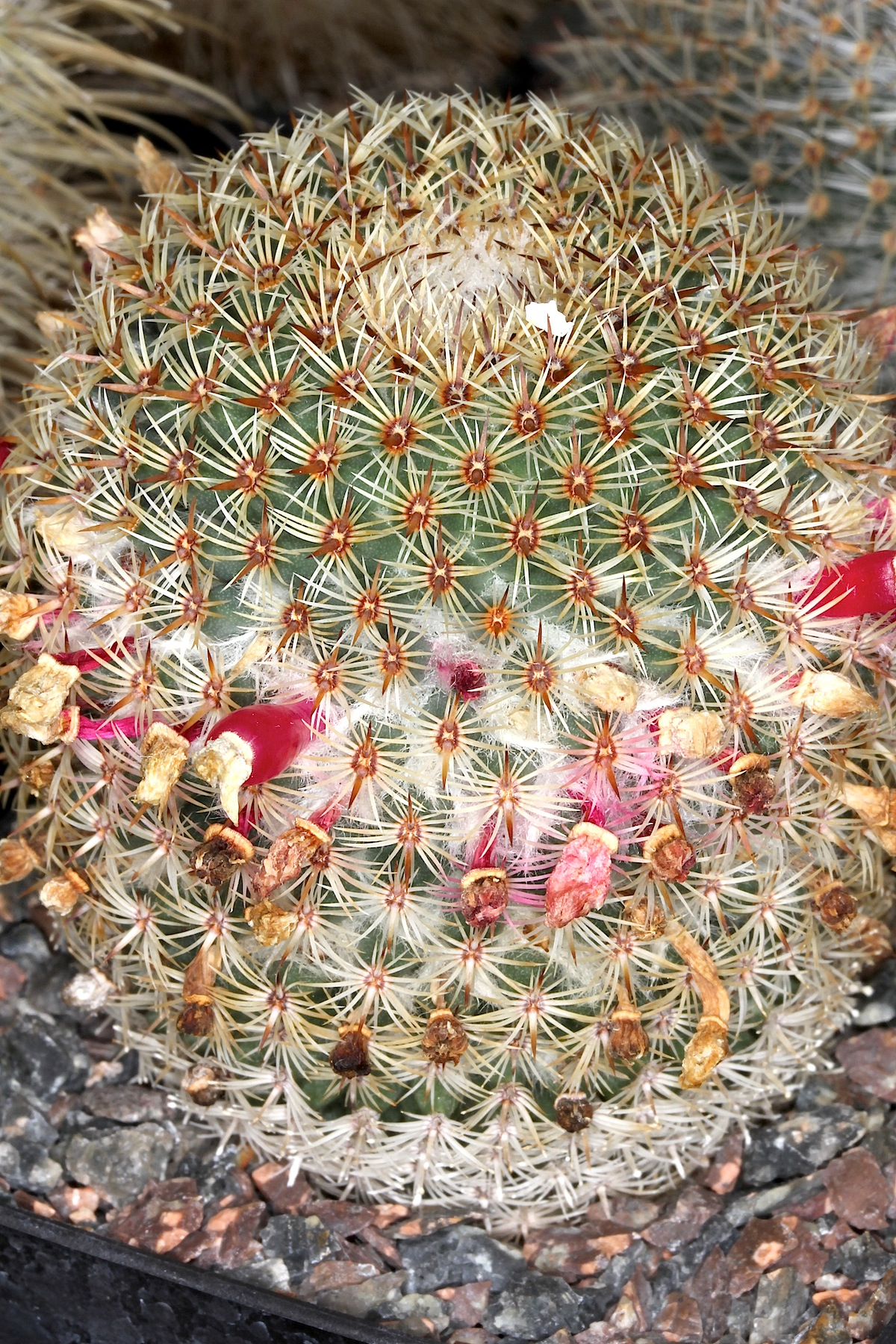 Mammillaria huitzilopochtli